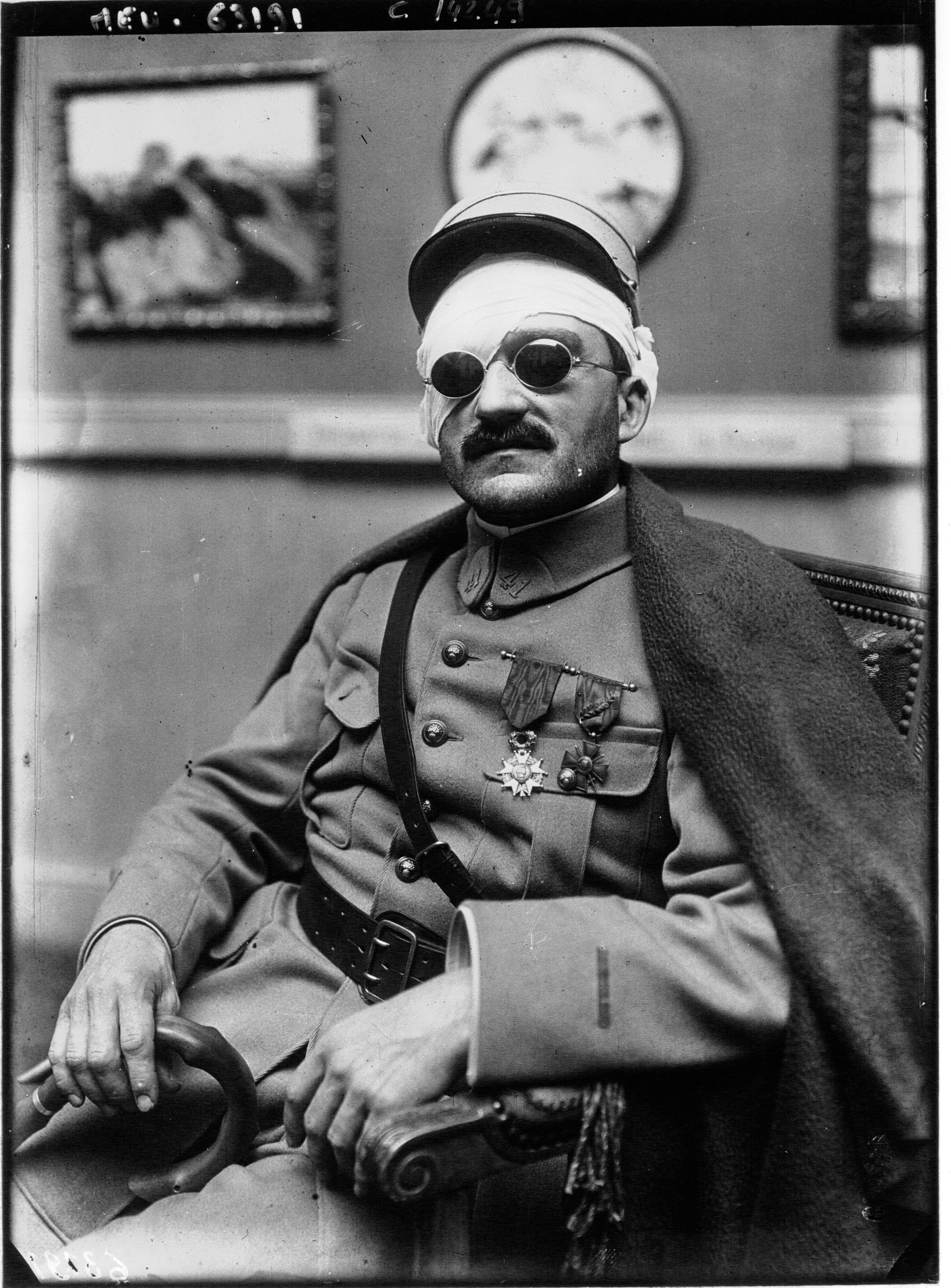 French painter Jean-Julien Lemordant (1882-1968), photographed here after he lost his eyesight during the First World War.